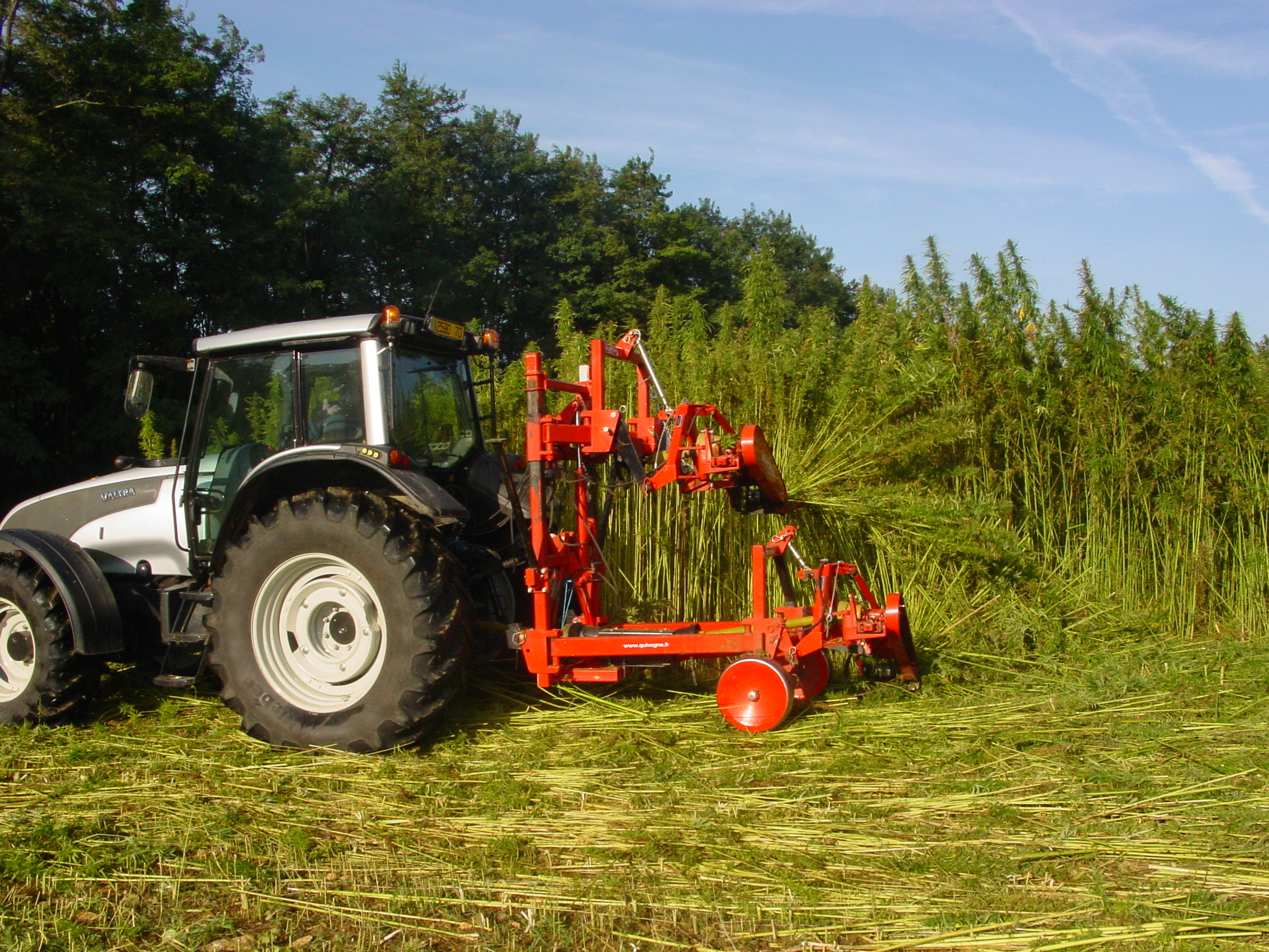 Hemp harvesting in France.